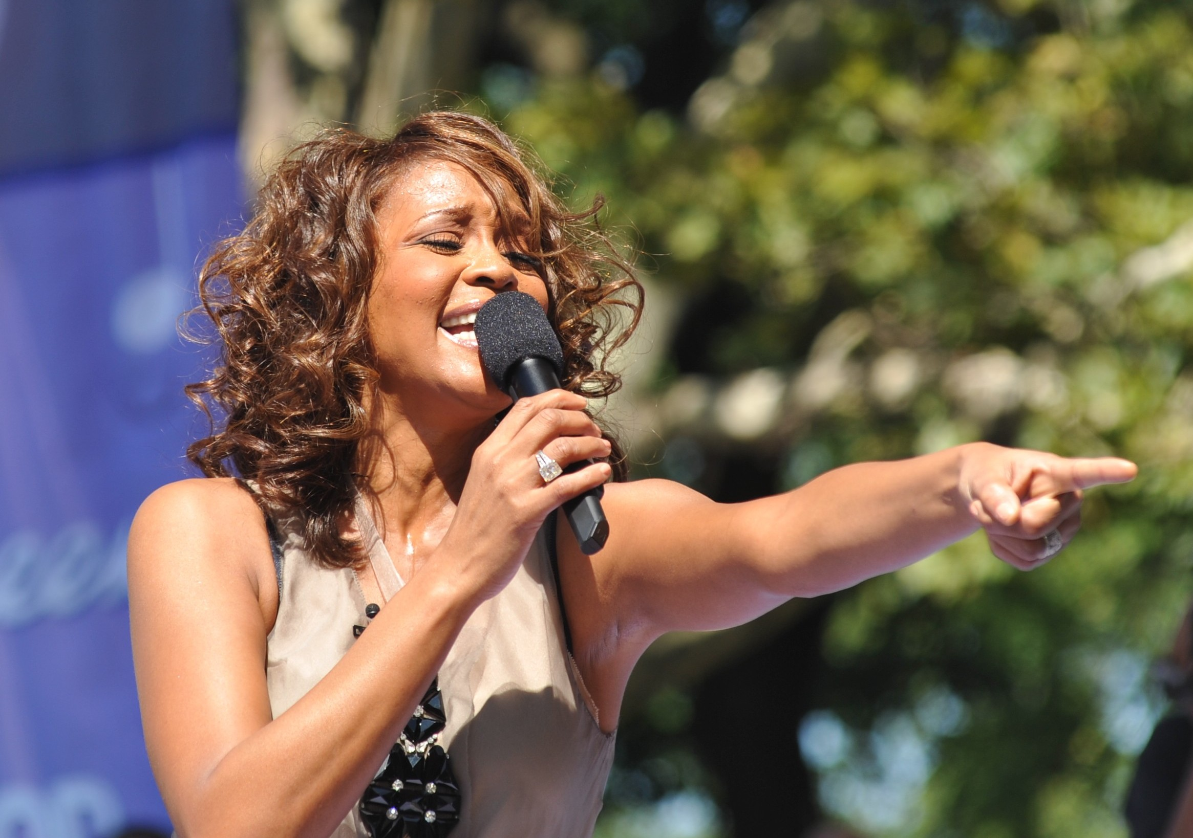 American singer Whitney Houston performing on Good Morning America (Central Park, New York City) on September 1, 2009.